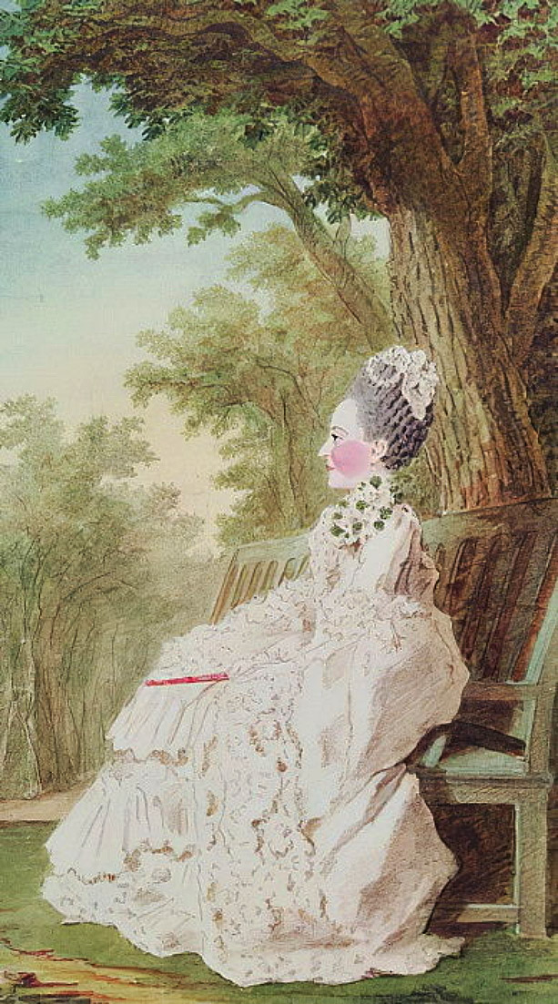 Fortunée d'Este (1734-1803) as the Countess of La Marche